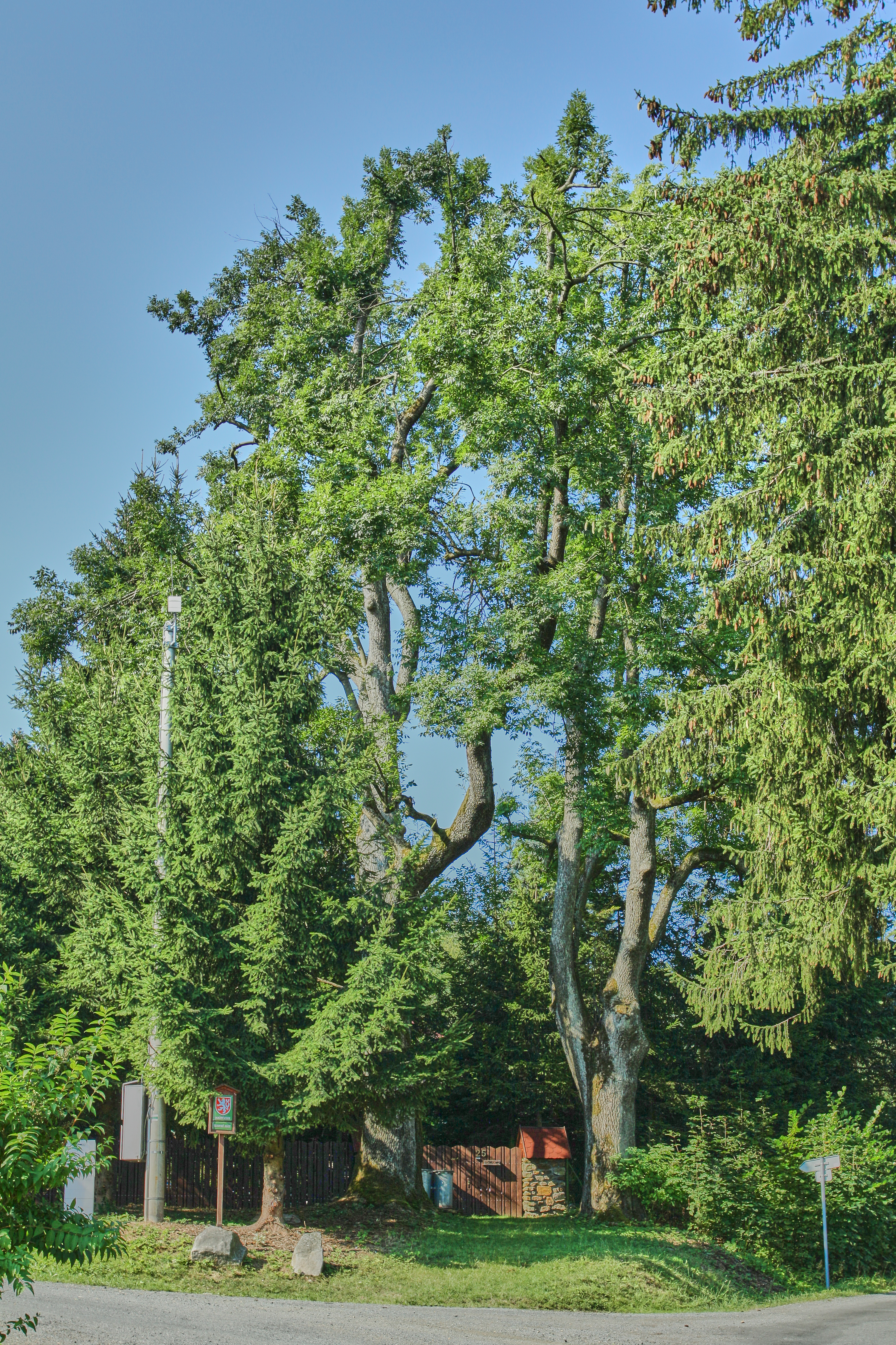 Famous tree Vranovské jasany in Domažlice District, Czech Republic